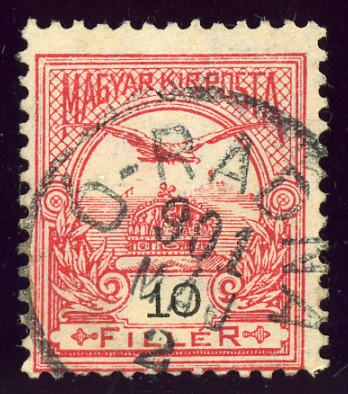 Kingdom of Hungary 10 fillér stamp, issue 1900, cancelled Ó-RADNA (old Rodna in Romania), Transylvania, in 1901.